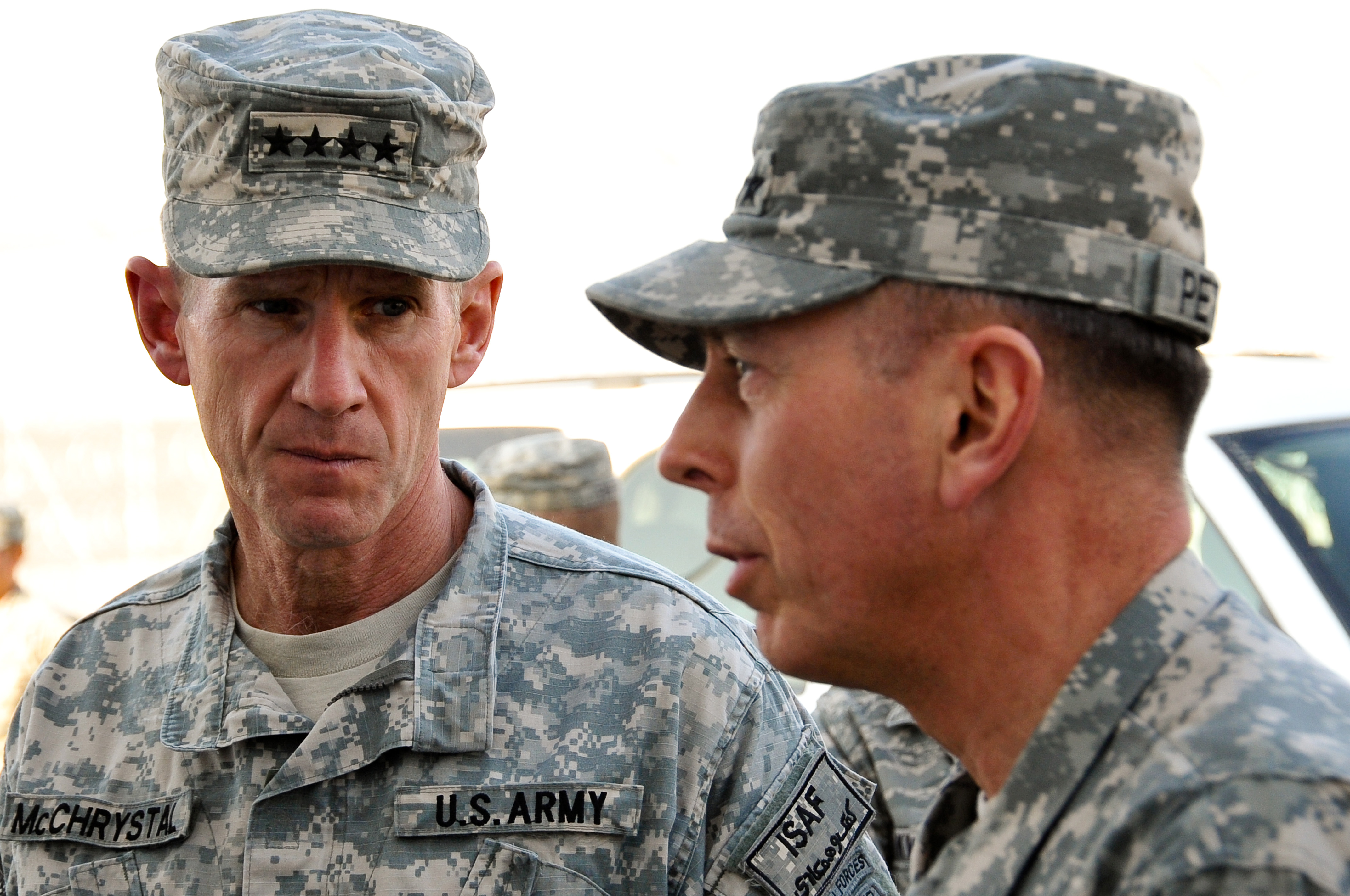 U.S. Army Gen. Stanley McChrystal, left, commander of U.S. Forces Afghanistan, and Gen. David Petraeus, commander of U.S. Central Command, talk at Bagram Air Base, Afghanistan, Oct. 29, 2009. VIRIN: 091029-F-7552L-196